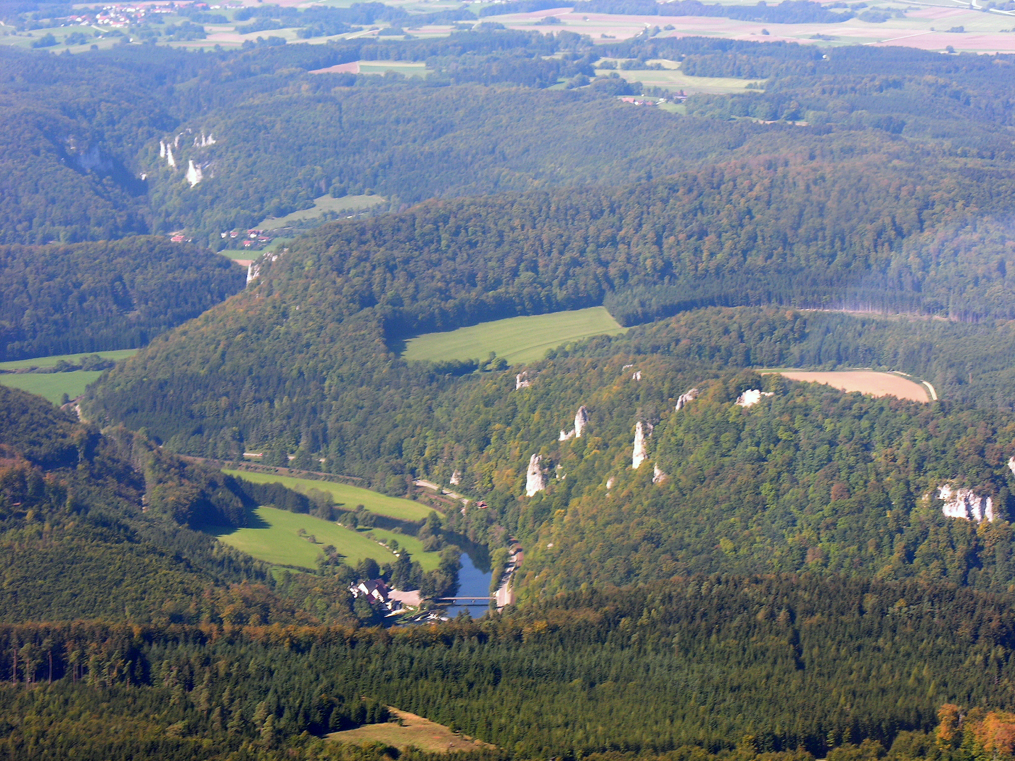 Aerial view of the Danube valley over Thiergarten